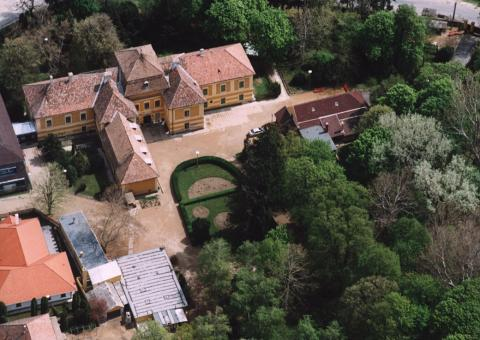 Nedeczky castle, Lesencetomaj, Hungary, aerial photography